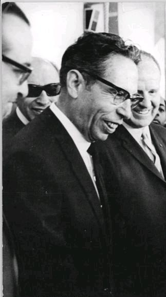 A cropped picture of Gustavo Díaz Ordaz, president of Mexico (center), during a pre-Olympic sports competition held in Mexico City in 1967.